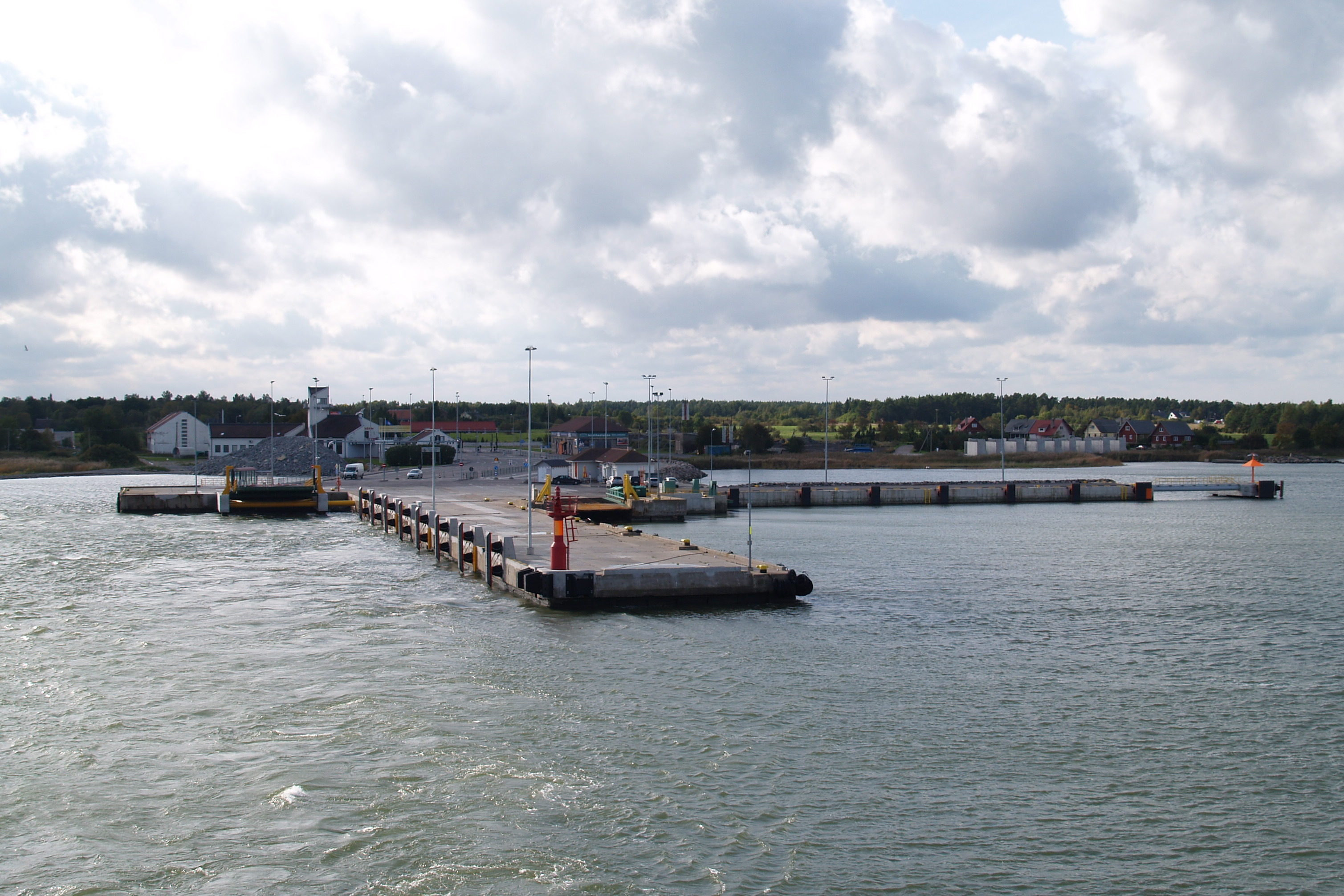 Port of Kuivastu in Muhu island.